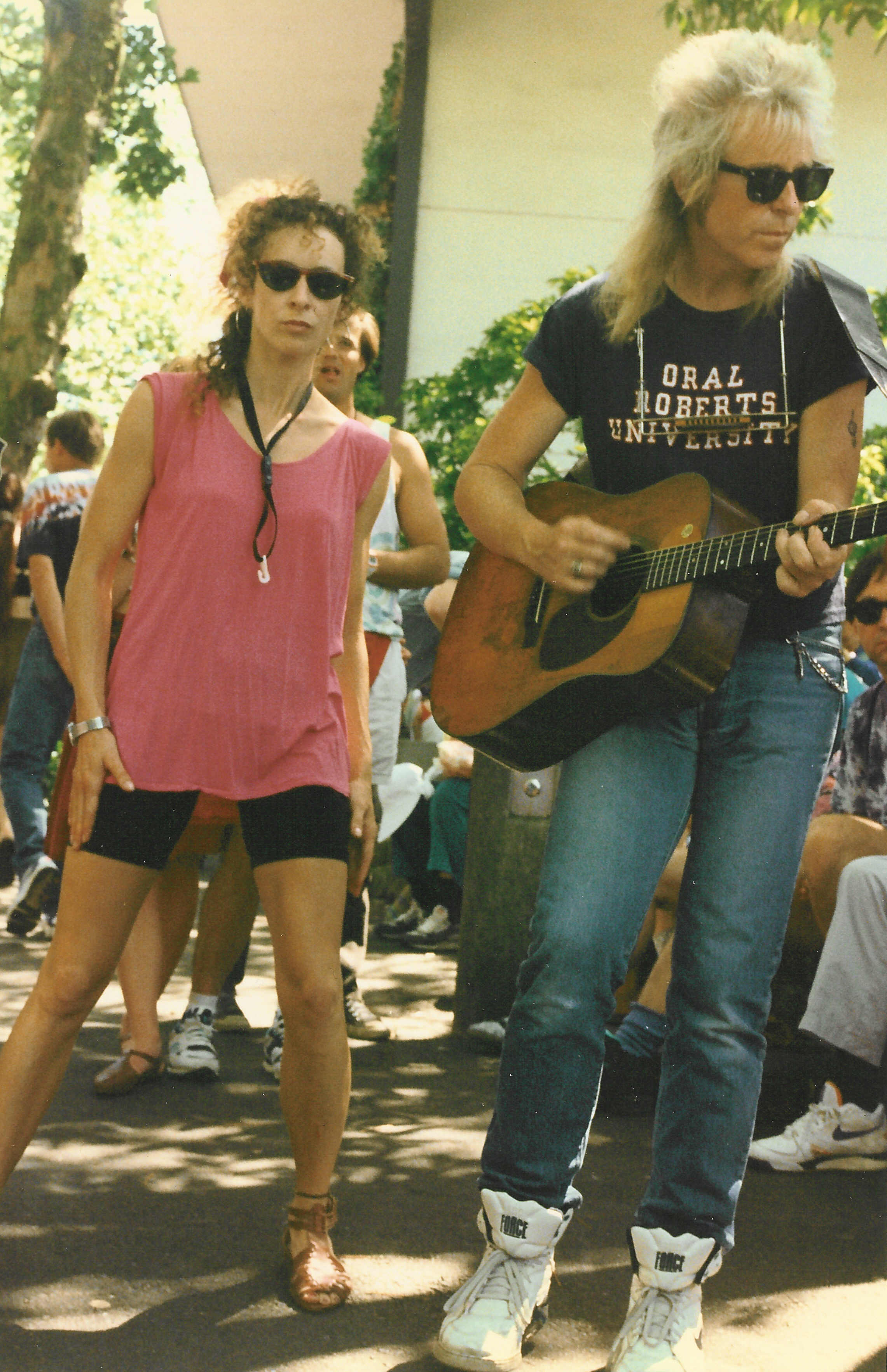 P.K. Dwyer (right) and Donna Beck busking at Northwest Folklife Festival 1992